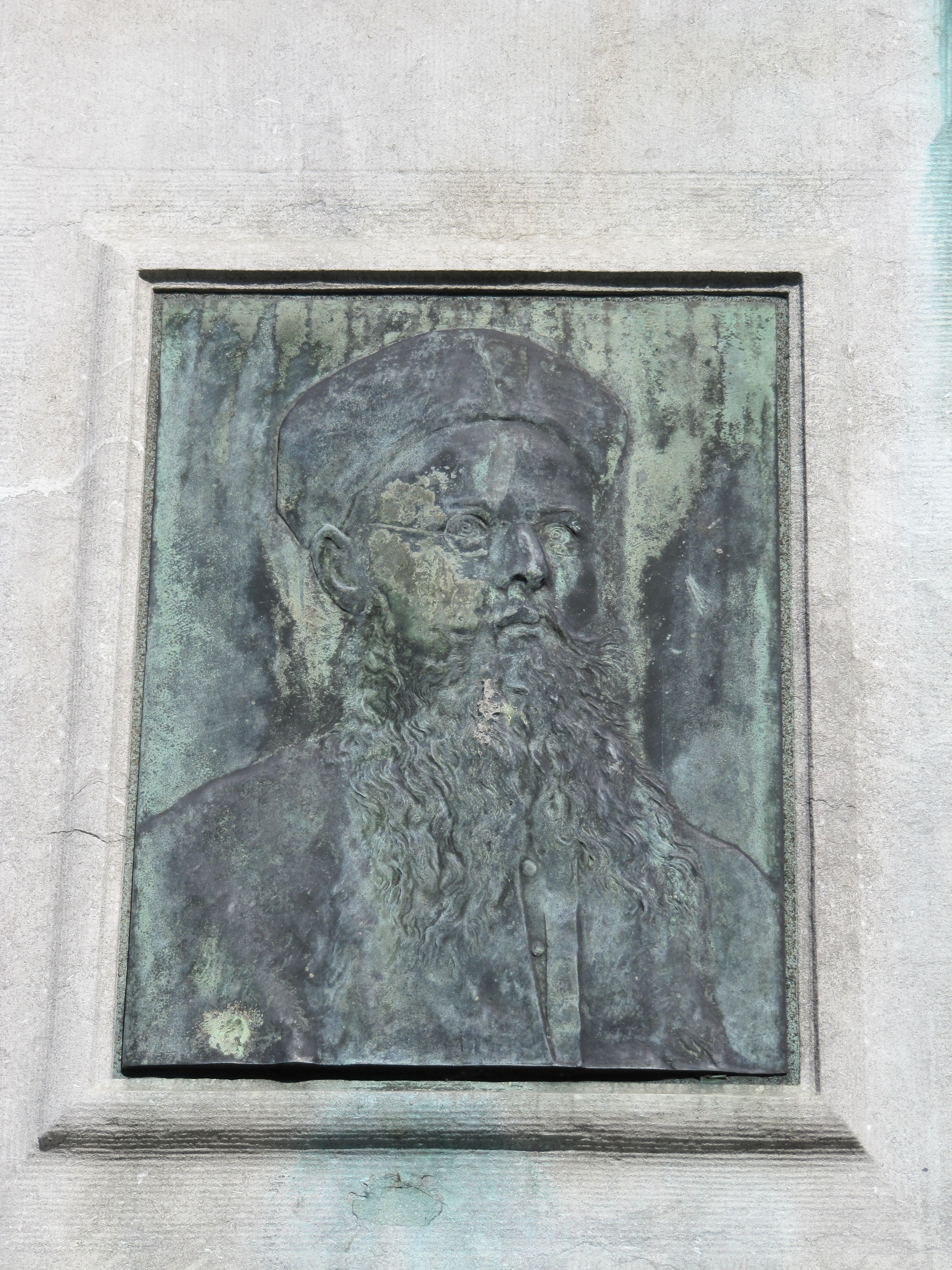 Relief of Andreas Zijlmans at the base of the statue of bishop Ferdinand Hamer by Bart van Hove in the Bisschop Hamerstraat in Nijmegen, The Netherlands